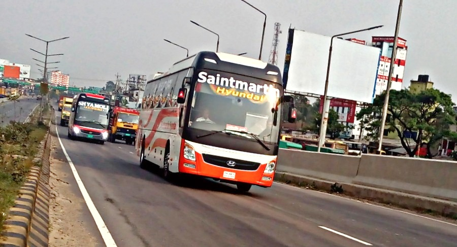 A Bangladeshi Saintmartin Hyundai Bus In Dhaka Chittagong Highway